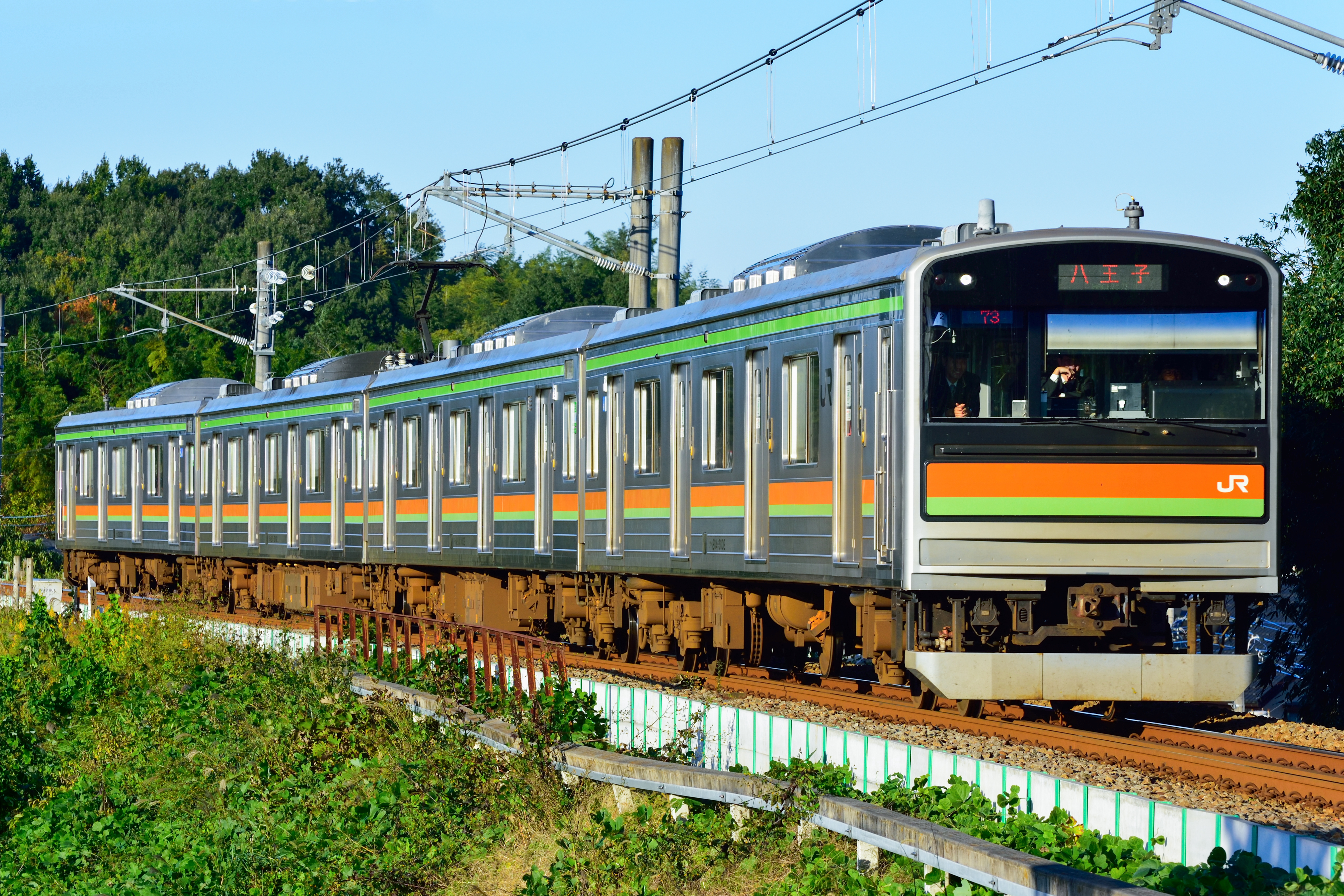 JR East 205-3000 series EMU set 82 between Komiya and Kita-Hachioji stations on the Hachiko Line